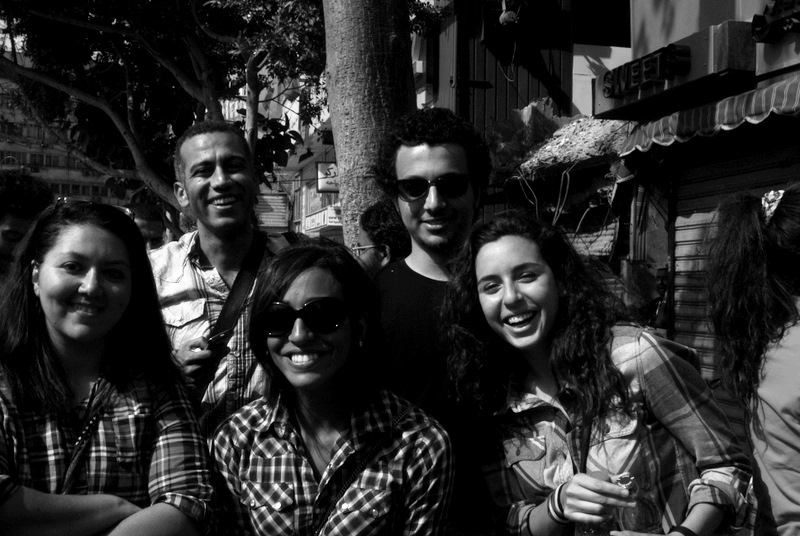 Group photos: Hossam El Hamalawy (@3arabawy) Mohannad (@mand0z), Me @lilianwagdy, Gigi Ibrahim (@Gsqaure86) and Sarrah (@sarrahsworld)